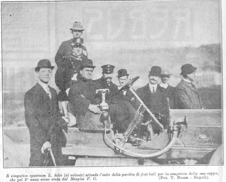 Luigi Salsi while watching a Salsi Cup match.